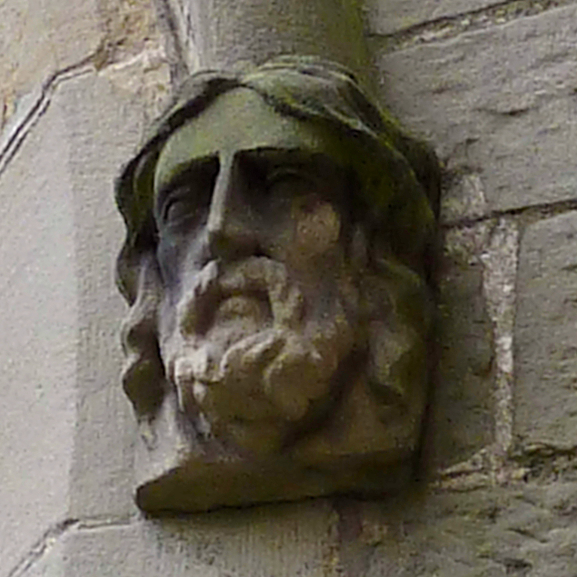 Church of St James, Boroughbridge, North Yorkshire, England. Designed by Mallinson & Healey, consecrated in 1852. The church contains Romanesque carvings in the vestry wall, and stone carving by Robert Mawer throughout. Showing label stop in form of head on exterior of church. This is a portrait of William Ingle when he was about 24 years old.